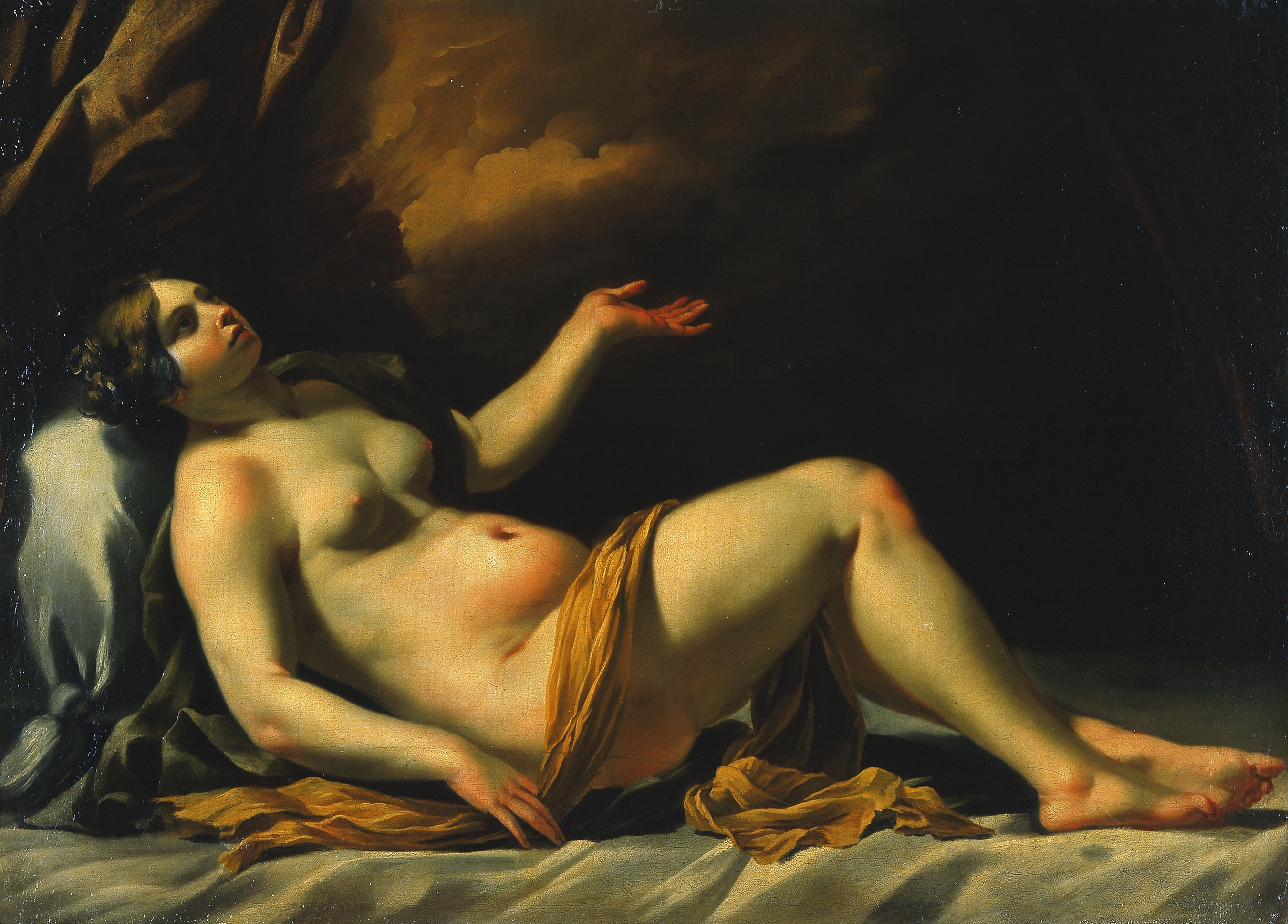 "Danaë" (1620-1630) at the Blanton Museum of Art, alternately attributed to Jacques Blanchard or Virginia da Vezzo, shown here before a c. 2012 restoration that uncovered a putto and an image of Jupiter that had been painted over.